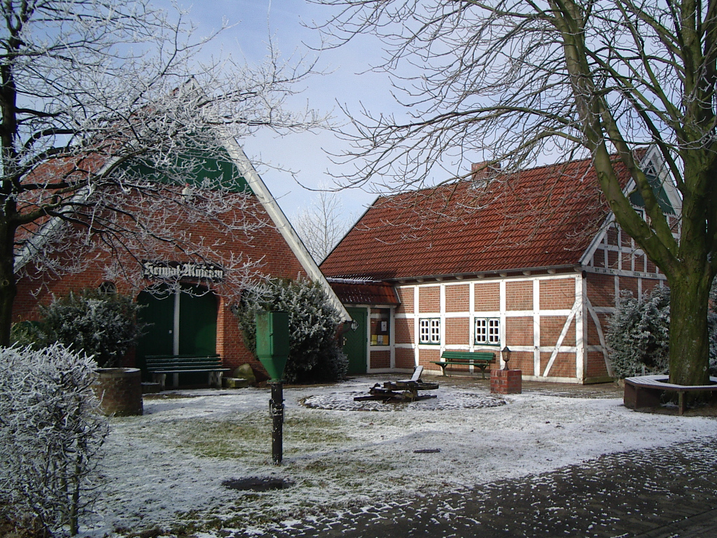 Photo takenby User:Geoz February 2006 Das Heimat-Museum in Wanna